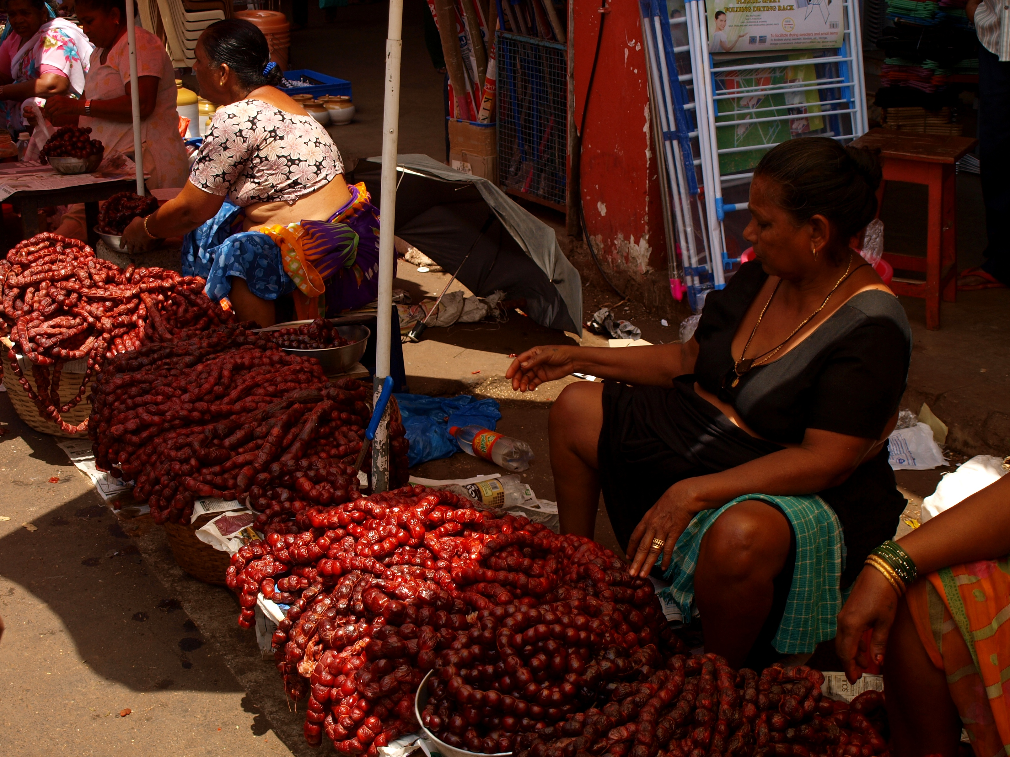 Preparing and selling goan pork sausage in the Mapusa maket, in Goa.